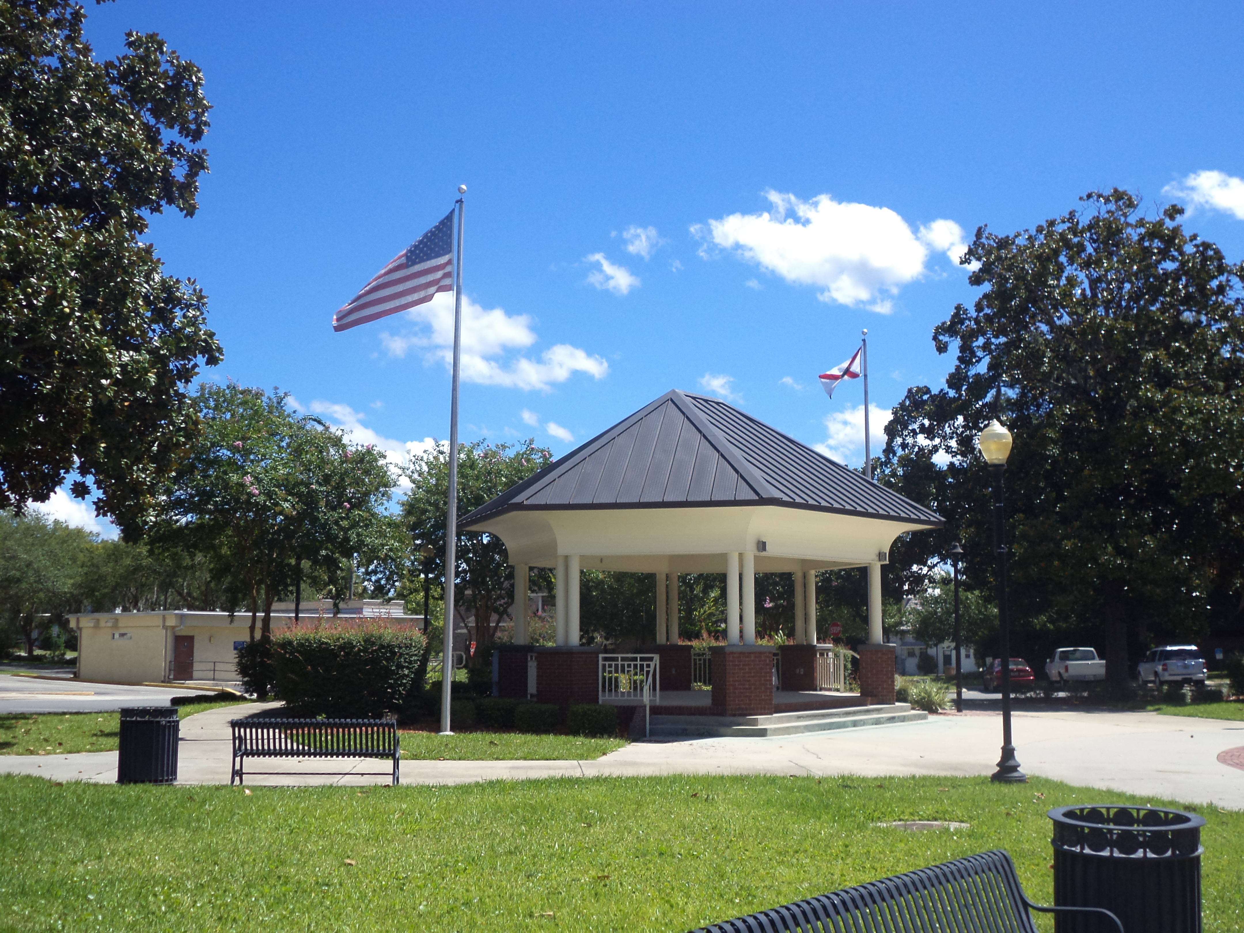 Olustee Park Pavilion (SouthWest corner), Lake City, Columbia County, Florida